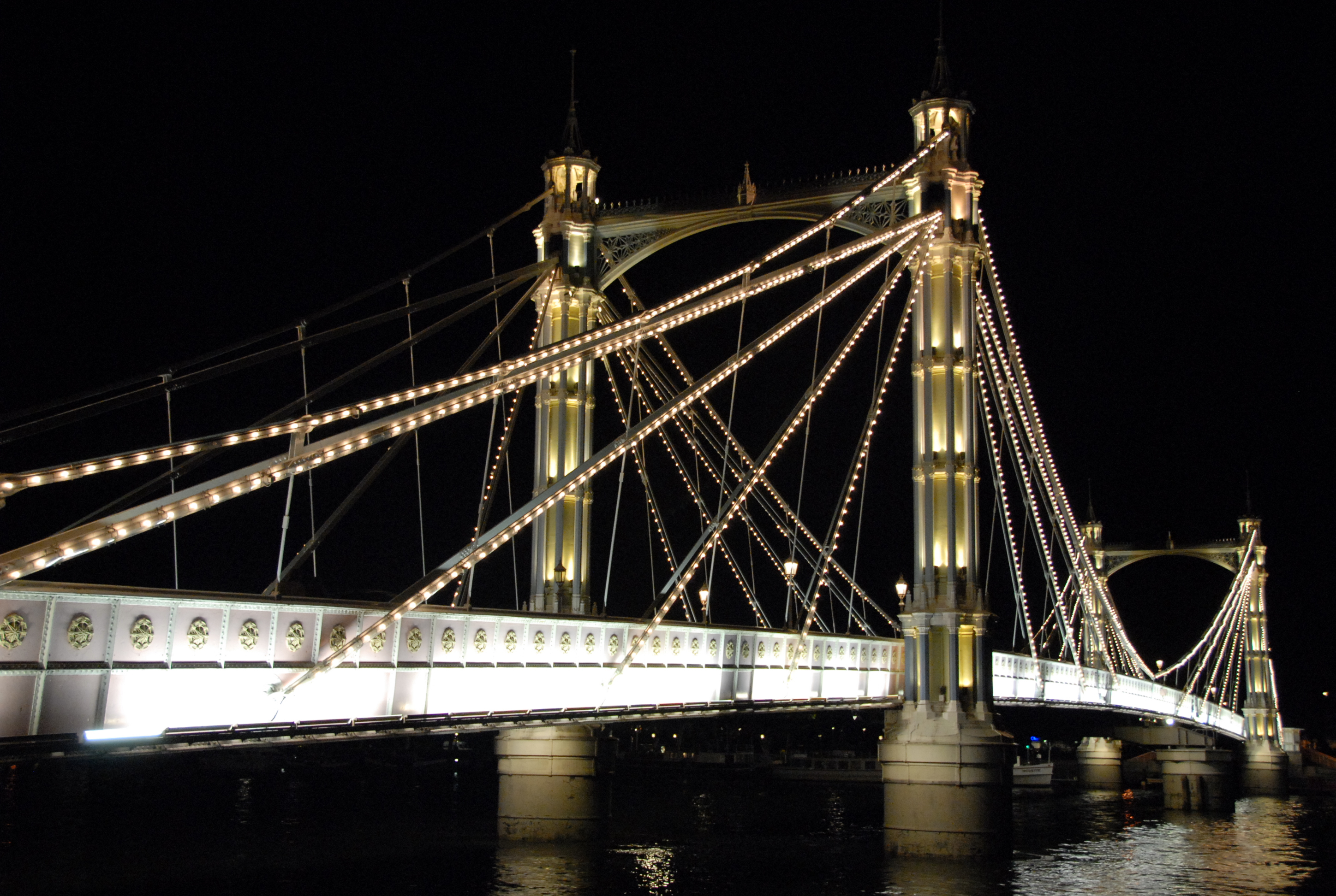 Albert Bridge London at night